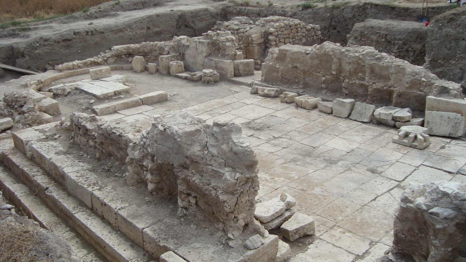 Archaeological excavations downtown Tigranakert. Location: Agdam Rayon, Azerbaijan / Askeran district, Republic of Mountainous Karabakh (Artsakh).